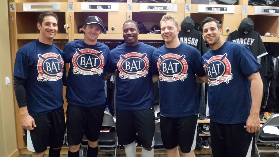 Player support for B.A.T.